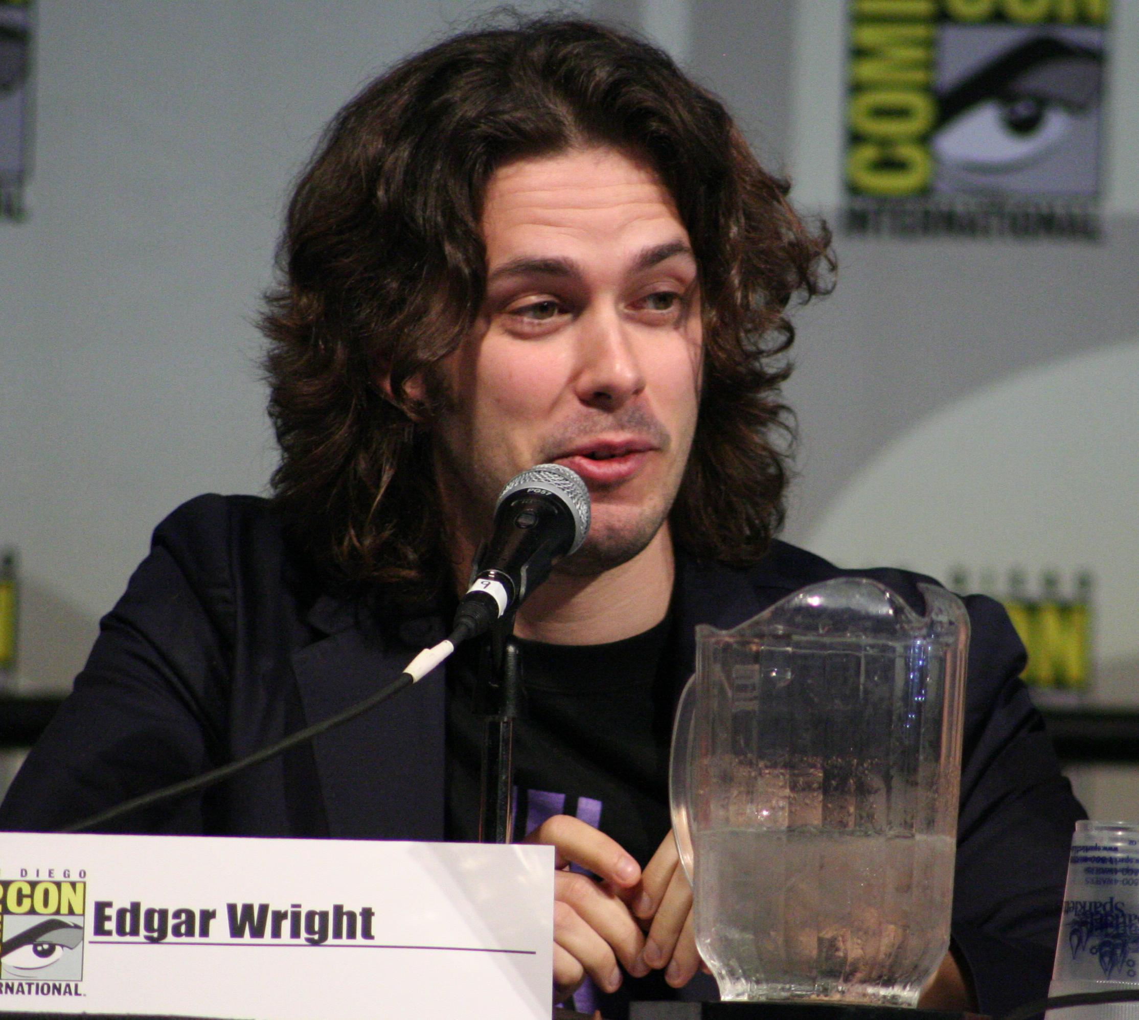 Edgar Wright at Comic Con 2008.